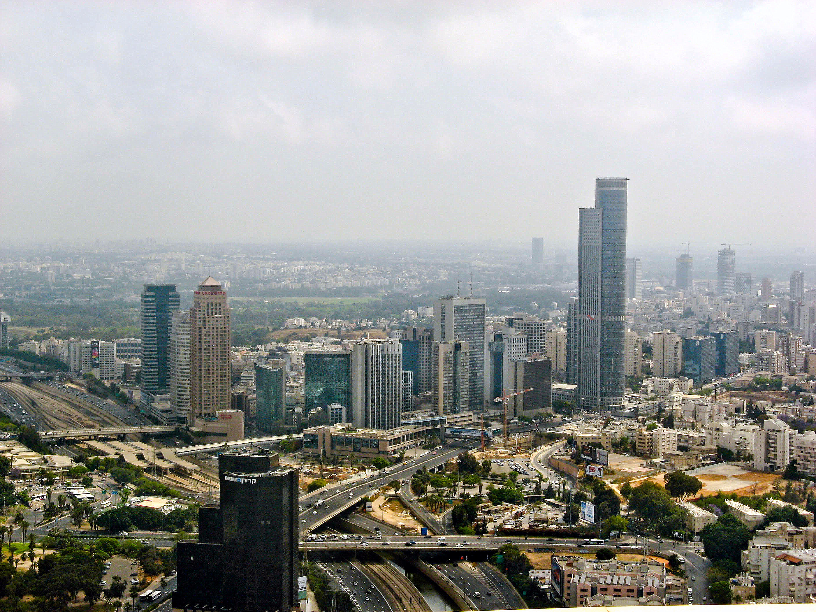 taken from the top of azrieli tower